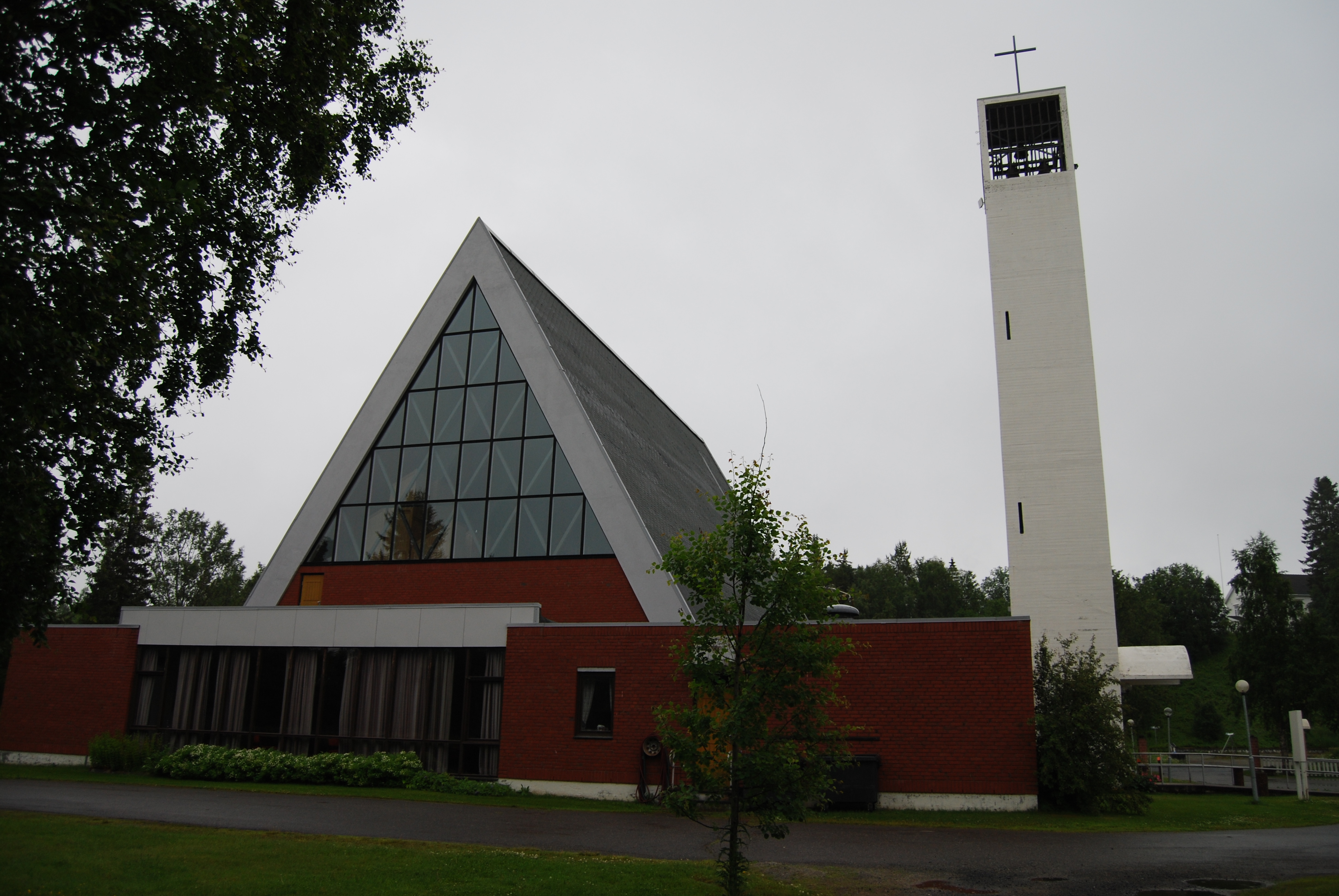 Målselv kirke, Målselv kommune, Norway.